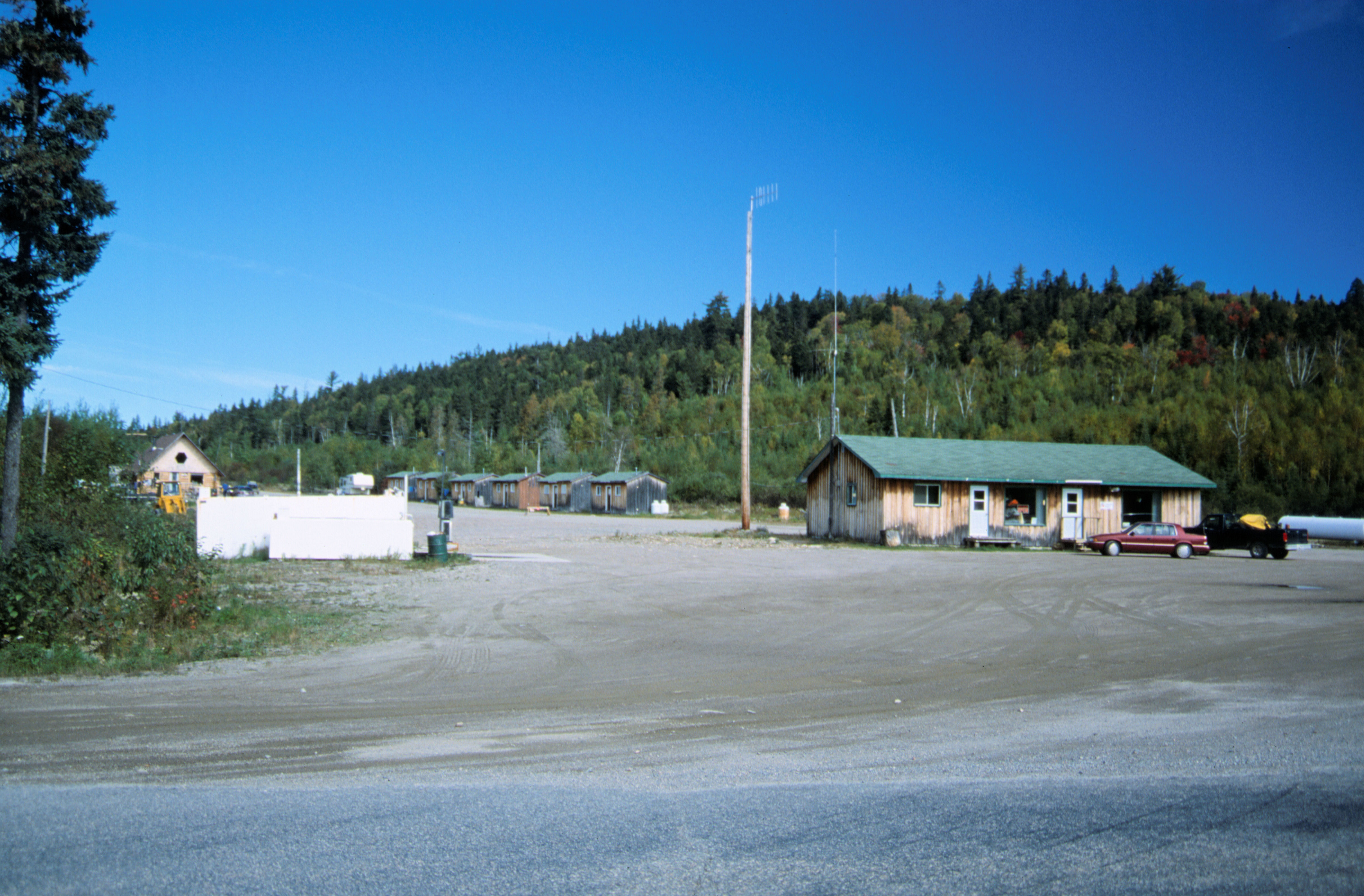 A small restaurant at the New Brunswick Route 108